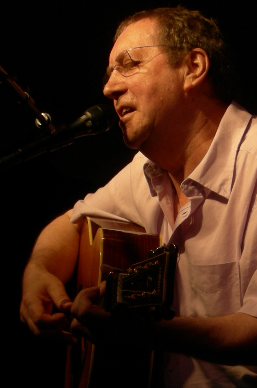 Bert Jansch performs at Bumbershoot, a music and arts festival held every Labor Day weekend at Seattle Center, Seattle, Washington, USA.